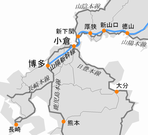 Map of Kokura station and Hakata station.